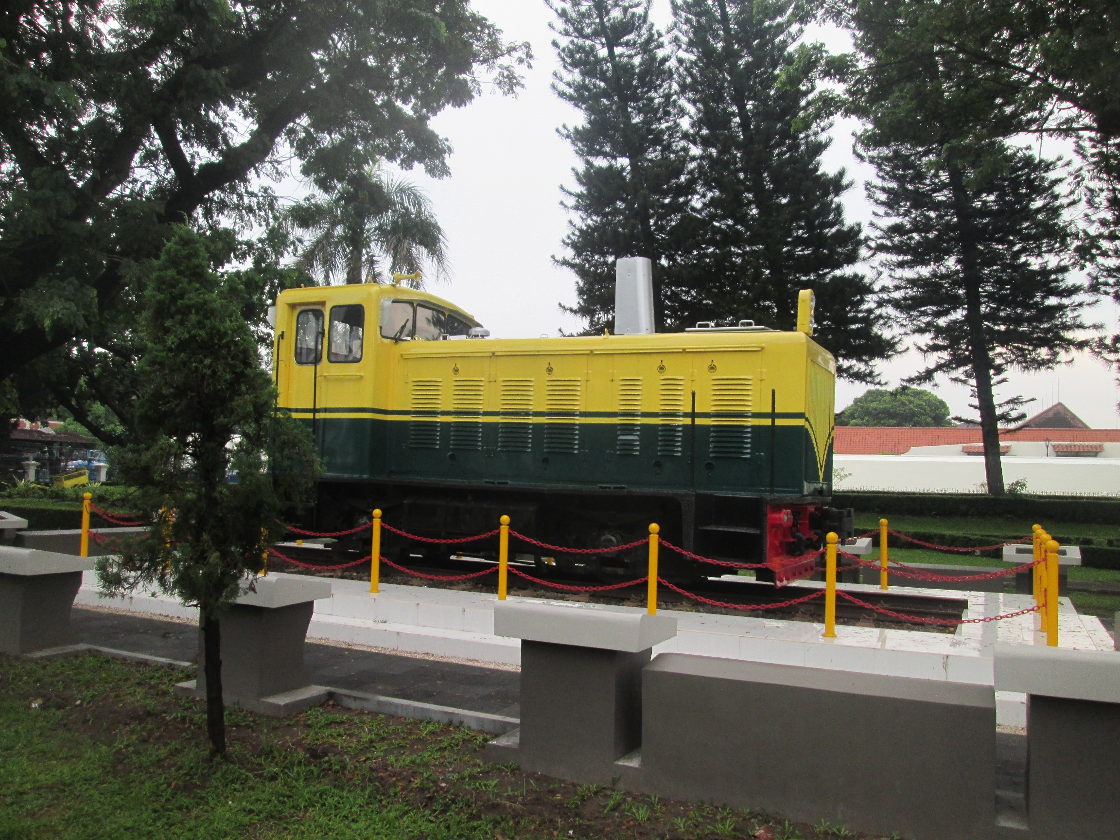 The "Bima Kunthing" locomotive at Vredeburg Fort.